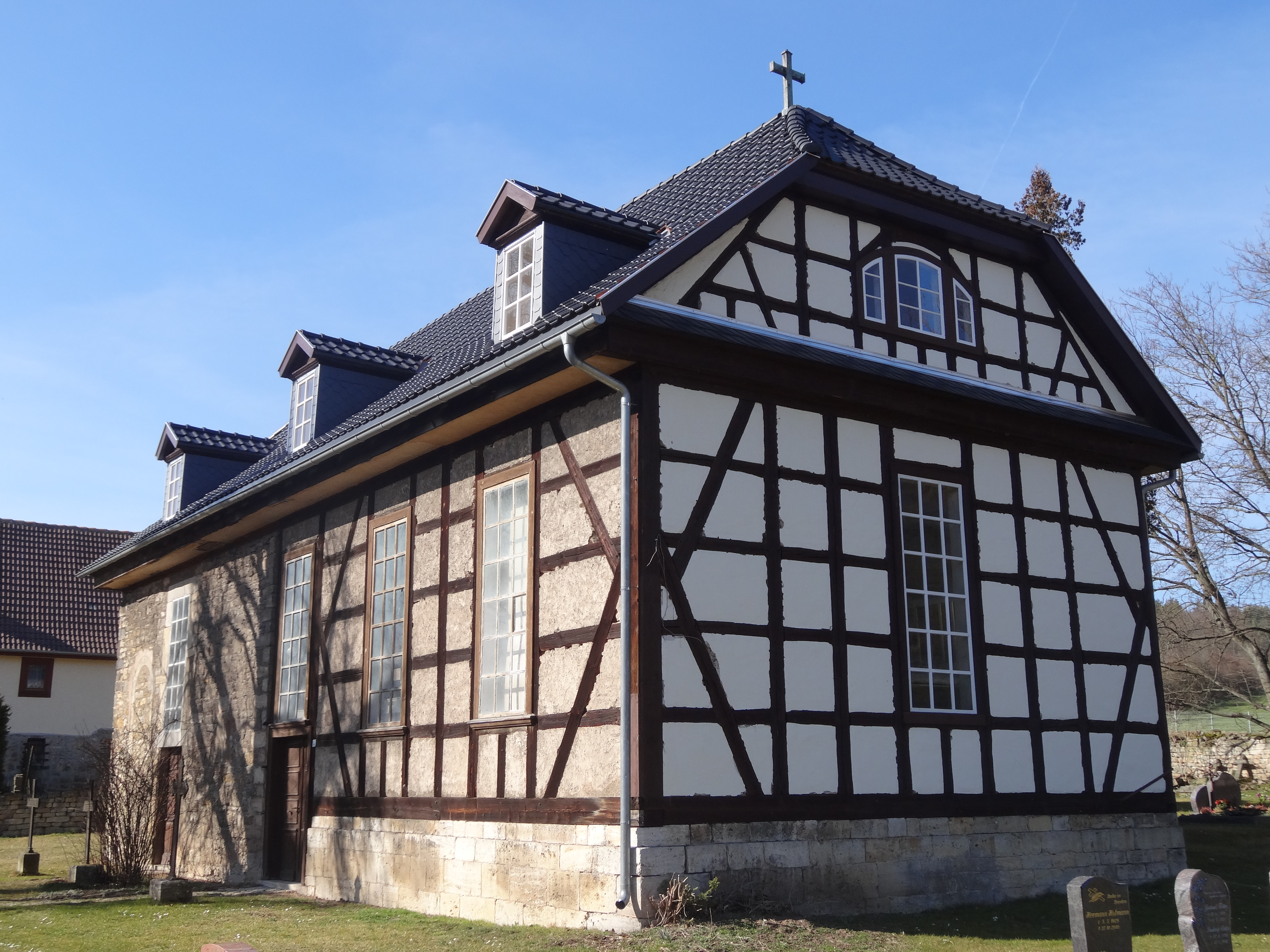 Church in Großhettstedt, Thuringia, Germany